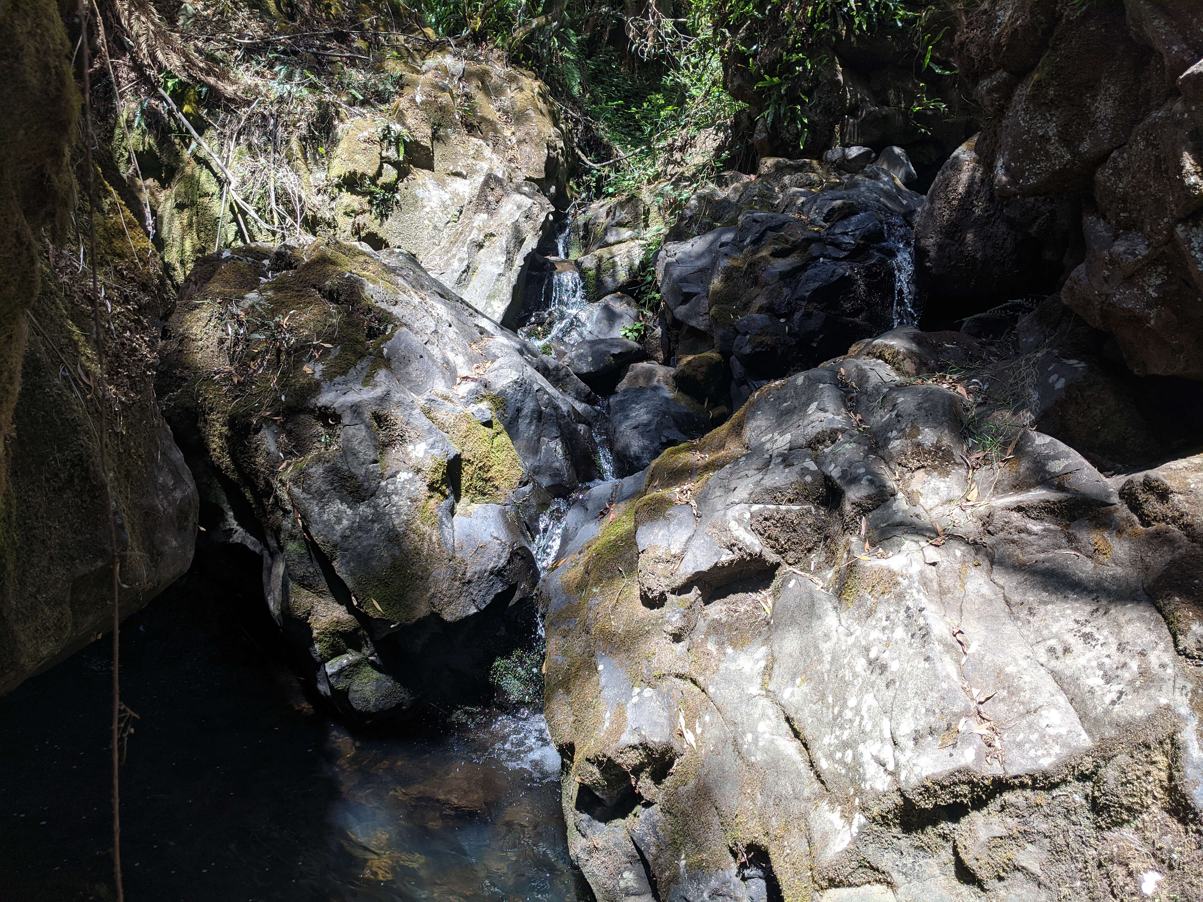 Delaneys Falls Secondary falls